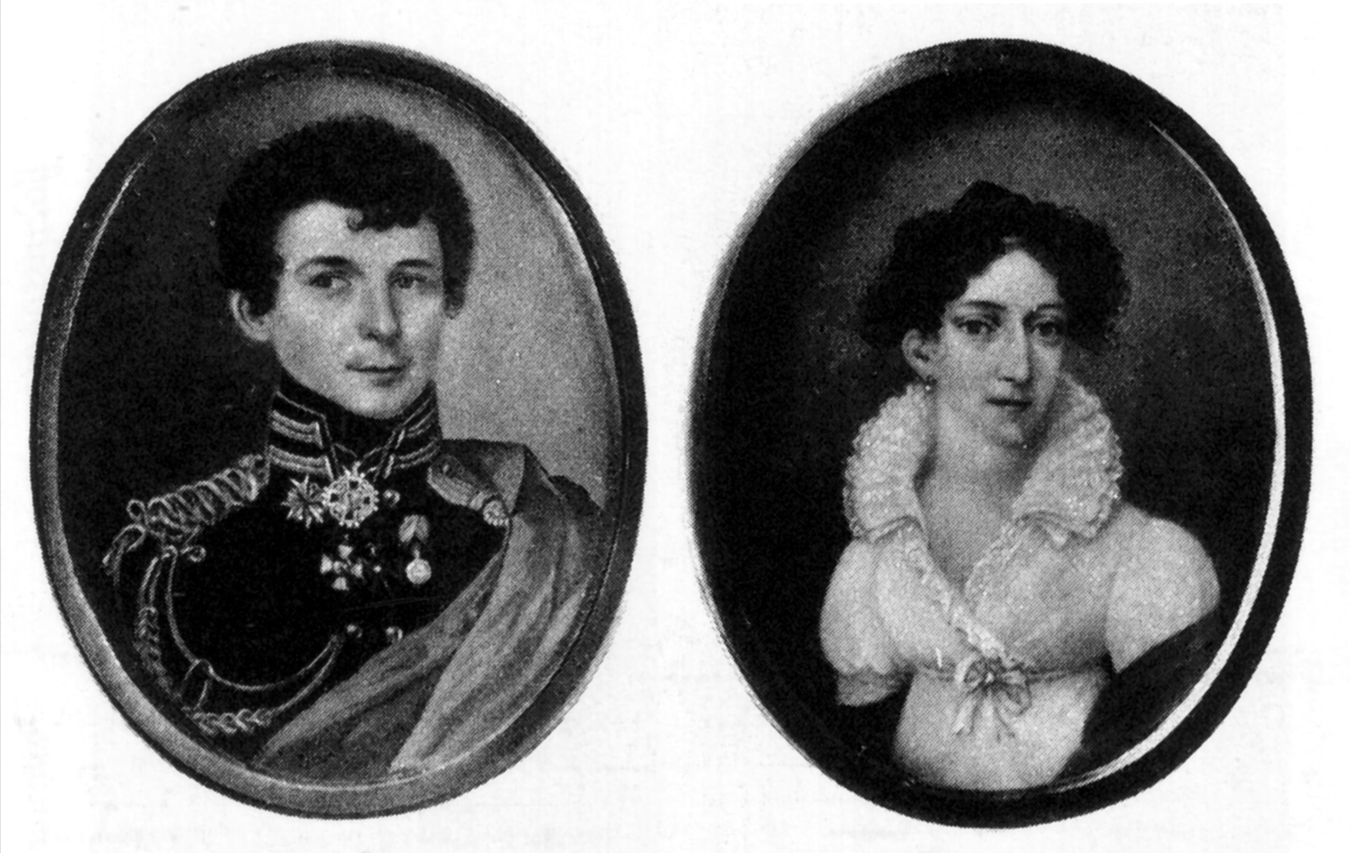 Baron Lev Bode and wife Natalia